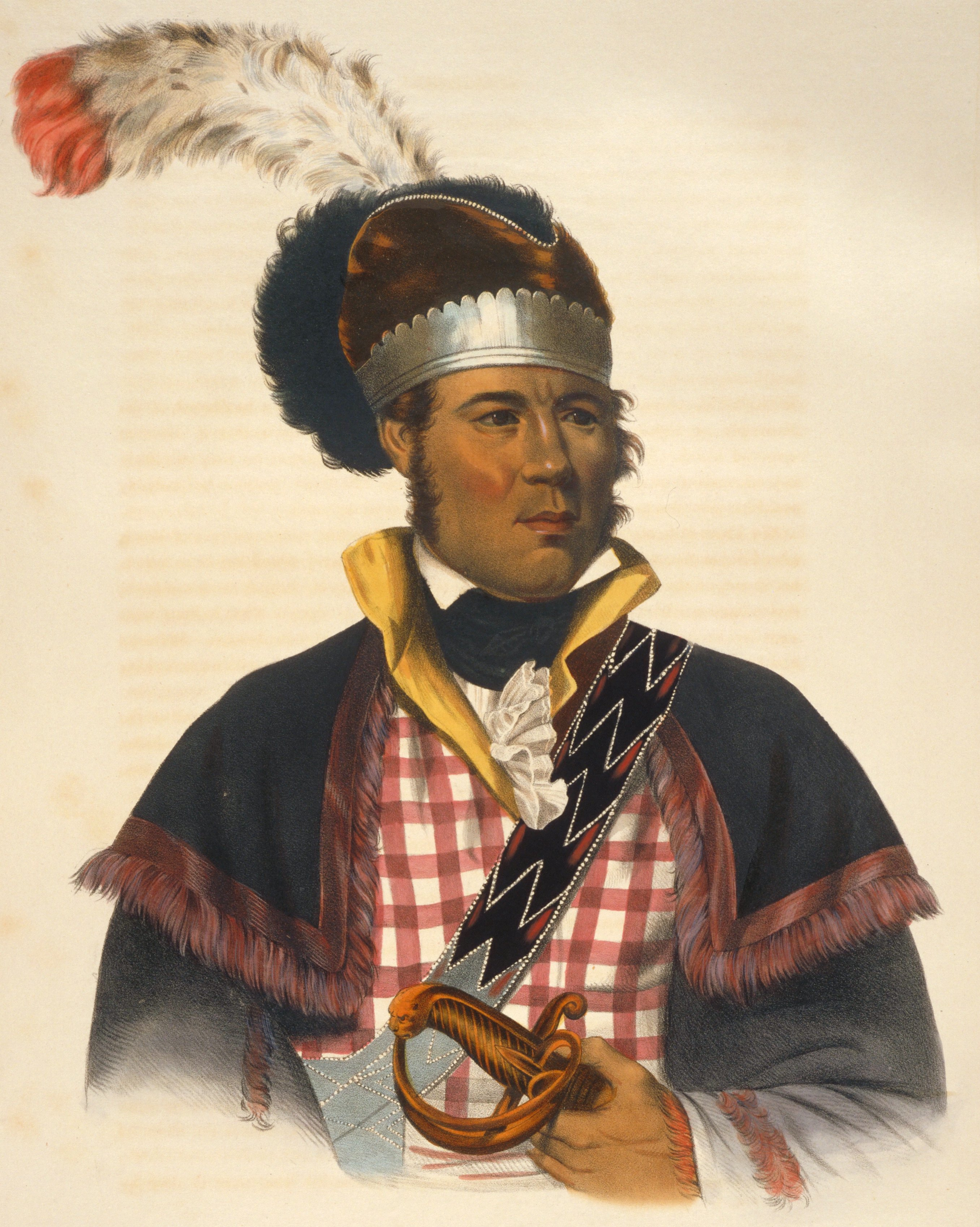 M'Intosh, a Creek chief. McKenney, Thomas Loraine, 1785-1859 & Hall, James, 1793-1868. History of the Indian Tribes of North America, with Biographical Sketches and Anecdotes of the Principal Chief. Embellished with One Hundred and Twenty Portraits, from the Indian Gallery in the Department of War, at Washington. Philadelphia: F.W. Greenough, 1838-1844.